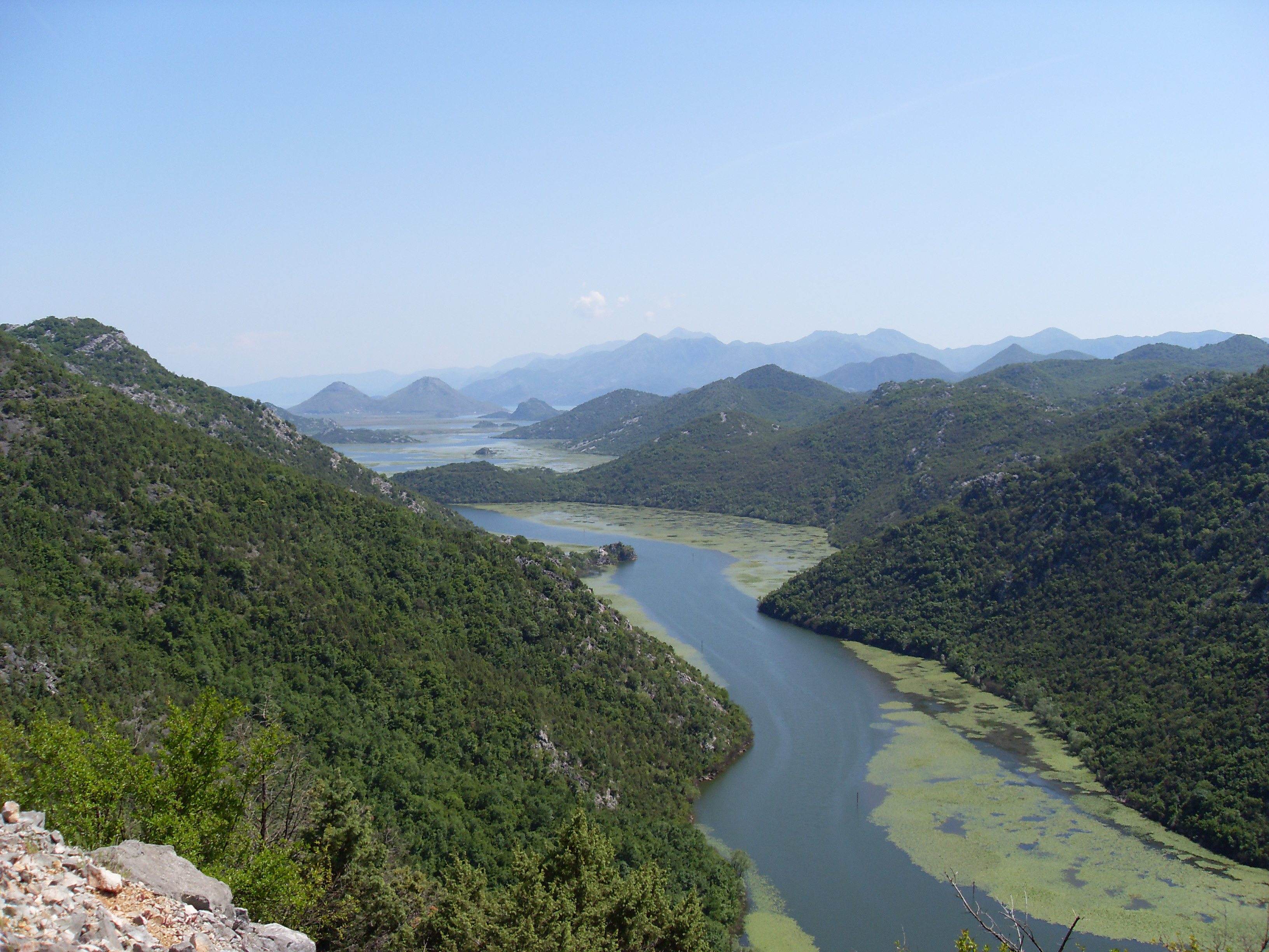 Western part of Lake Skadar close to the city Rijeka Crnojevica